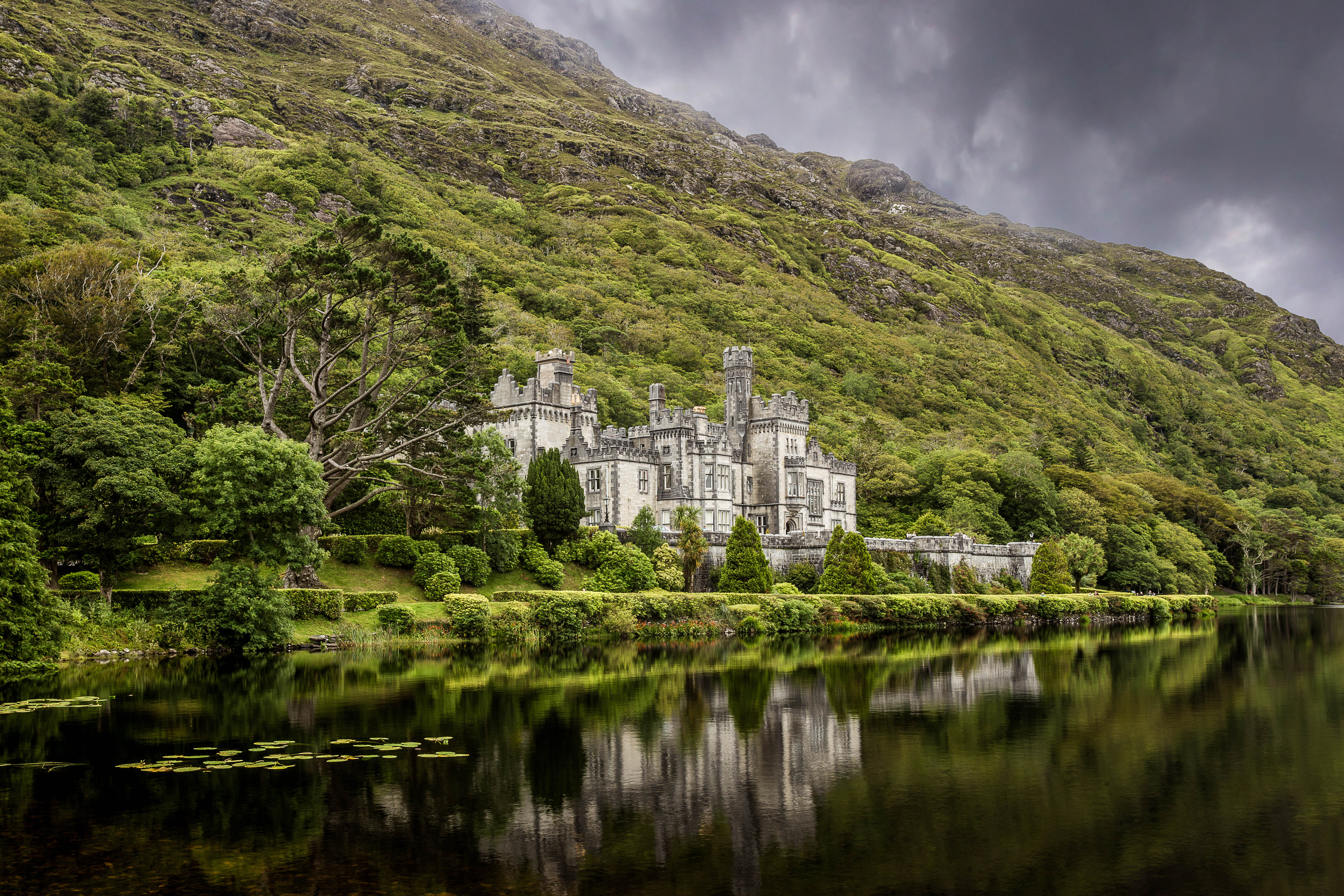 Kylemore Abbey, Connemara, County Galway, Ireland